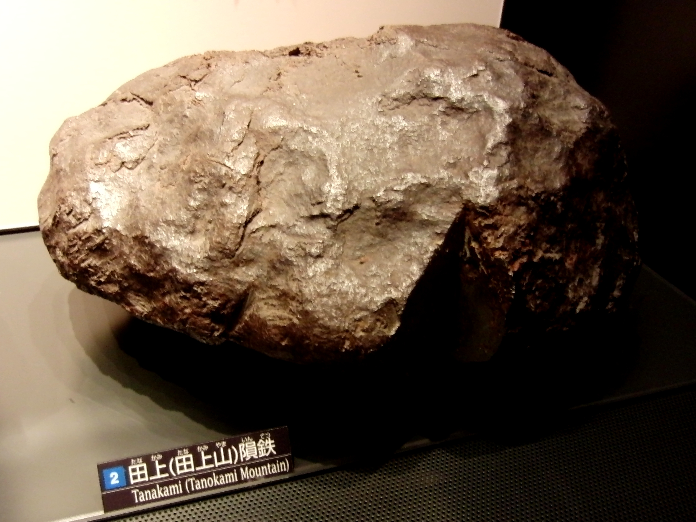 Tanakami Meteorite (Tanokami Mountain), Iron meteorite. The biggest meteorite in Japan. Exhibit in the National Museum of Nature and Science, Tokyo, Japan.